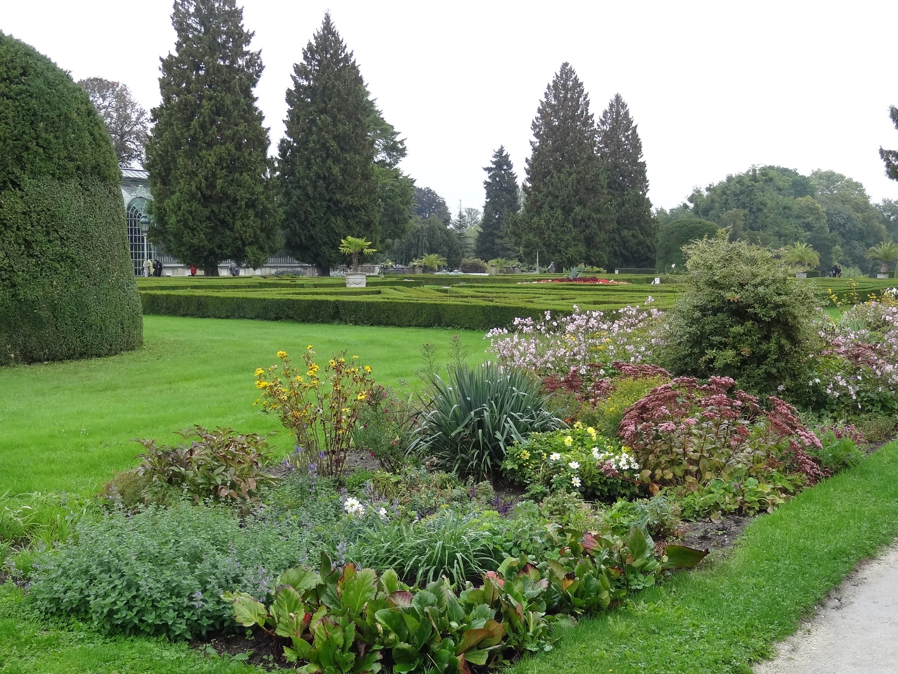 Park at Lednice Castle